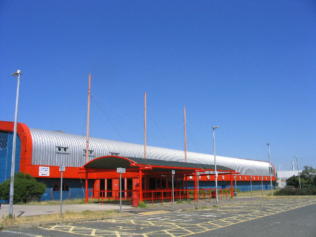 Romford Ice Rink, Rom Valley Way, Romford, Essex.